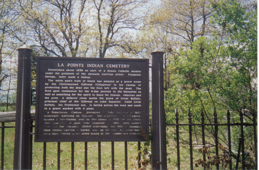 Indian Cemetery in LaPointe, Wisconsin, United States.